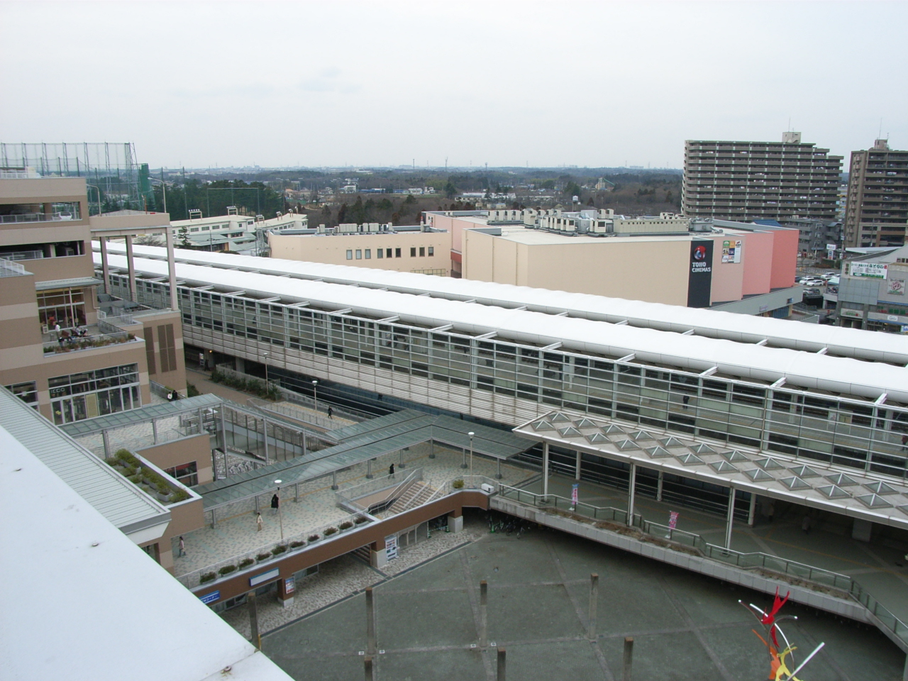 Yachiyo-Midorigaoka Station, Yachiyo, Chiba, Japan